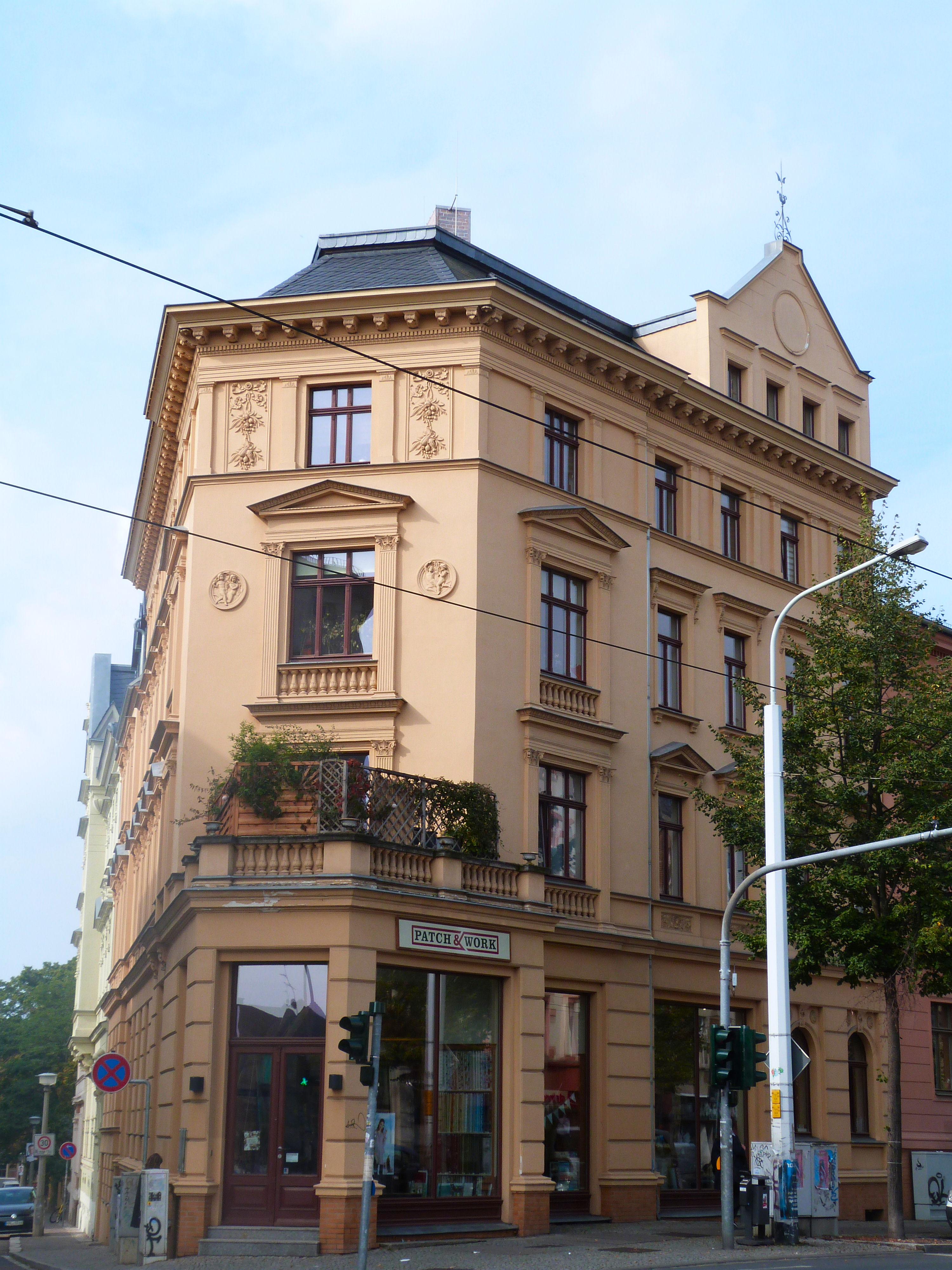 House No. 14 Gütchenstrasse in Halle (Saale)